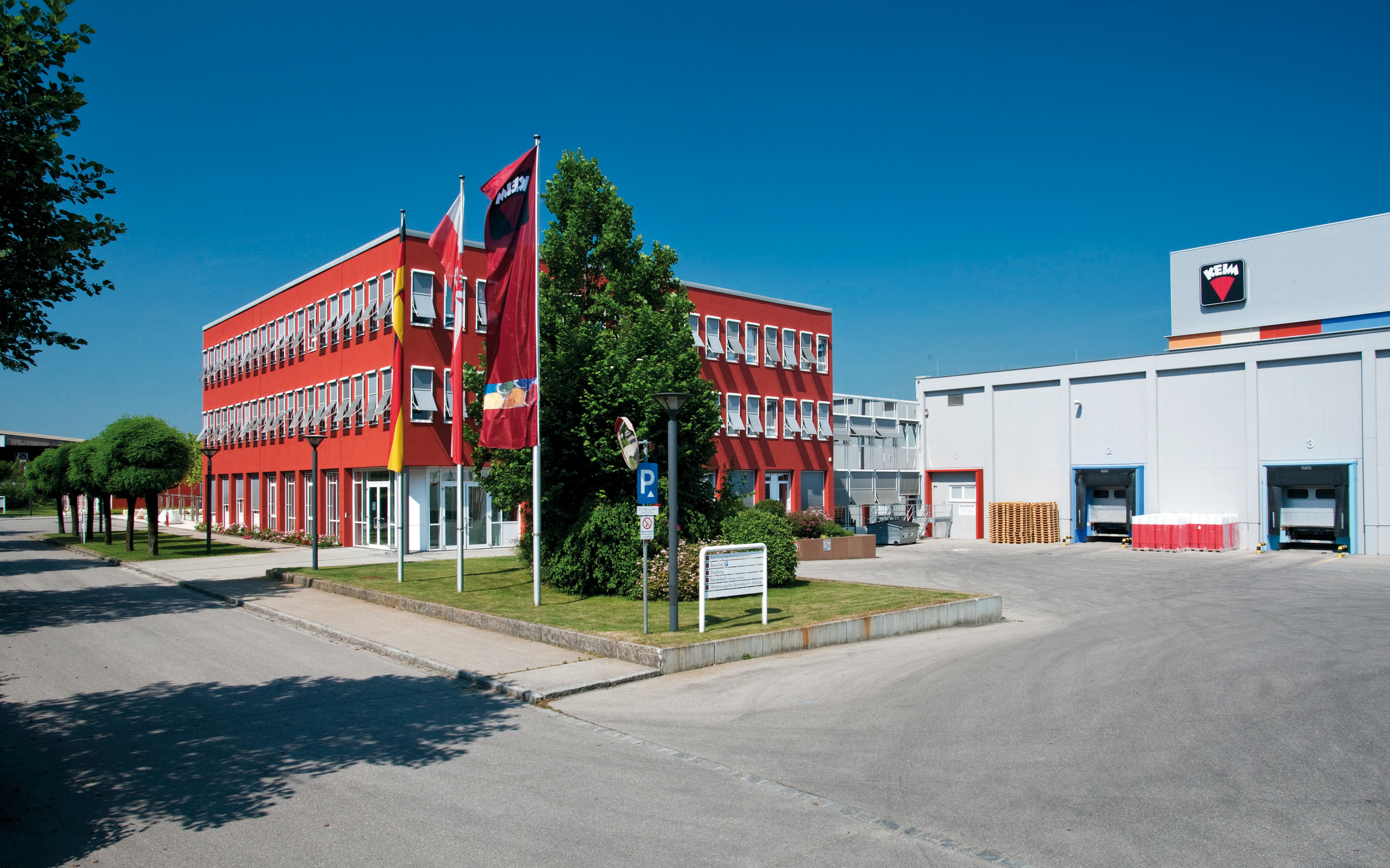 Company building of KEIMFARBEN GmbH in Diedorf, Germany.